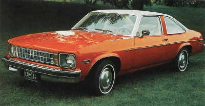 1976 Chevrolet Nova Coupe